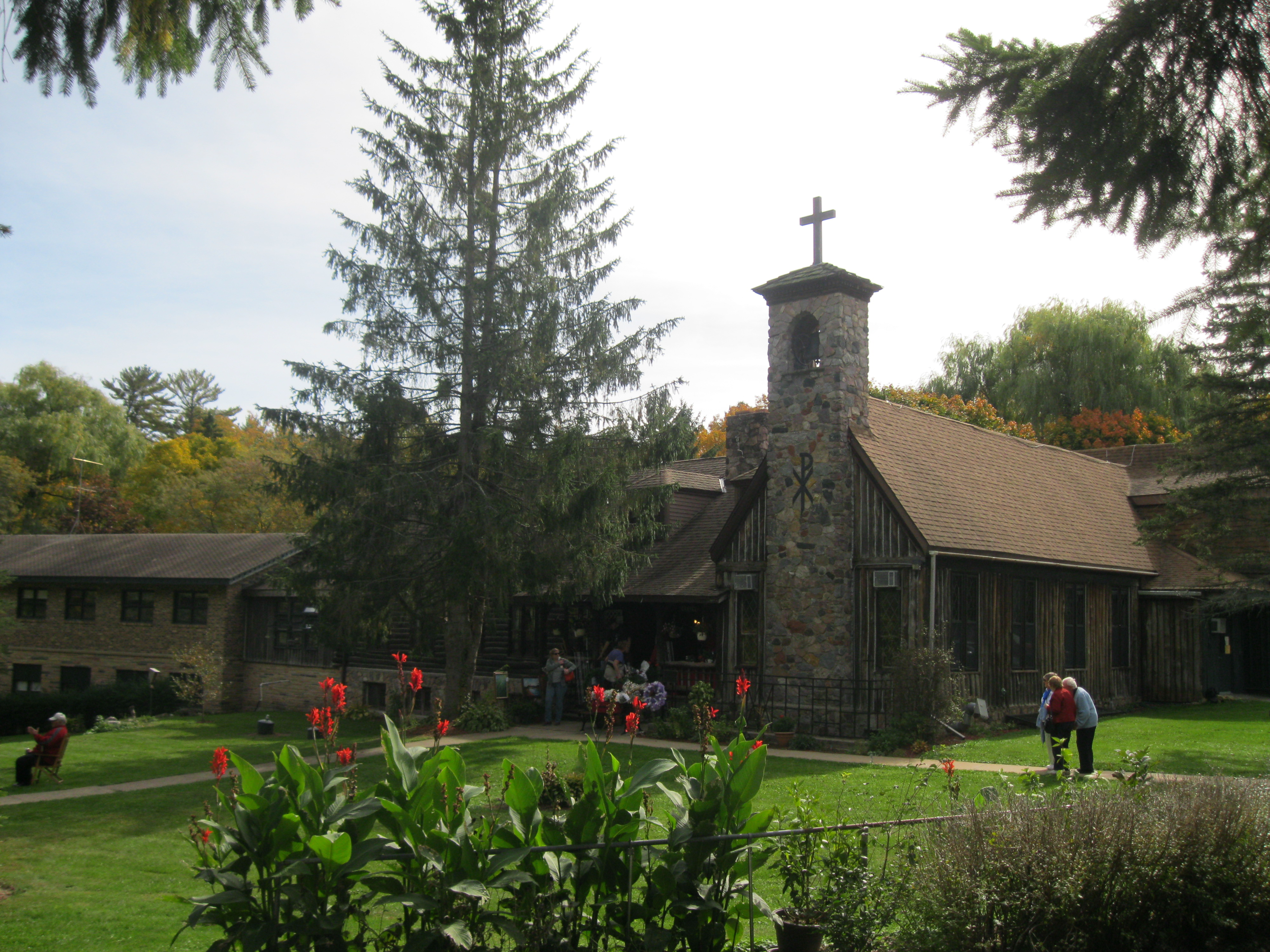 Seminary and chapel of the Order of St. Camillus at Durward's Glen in Caledonia, Columbia County, Wisconsin.